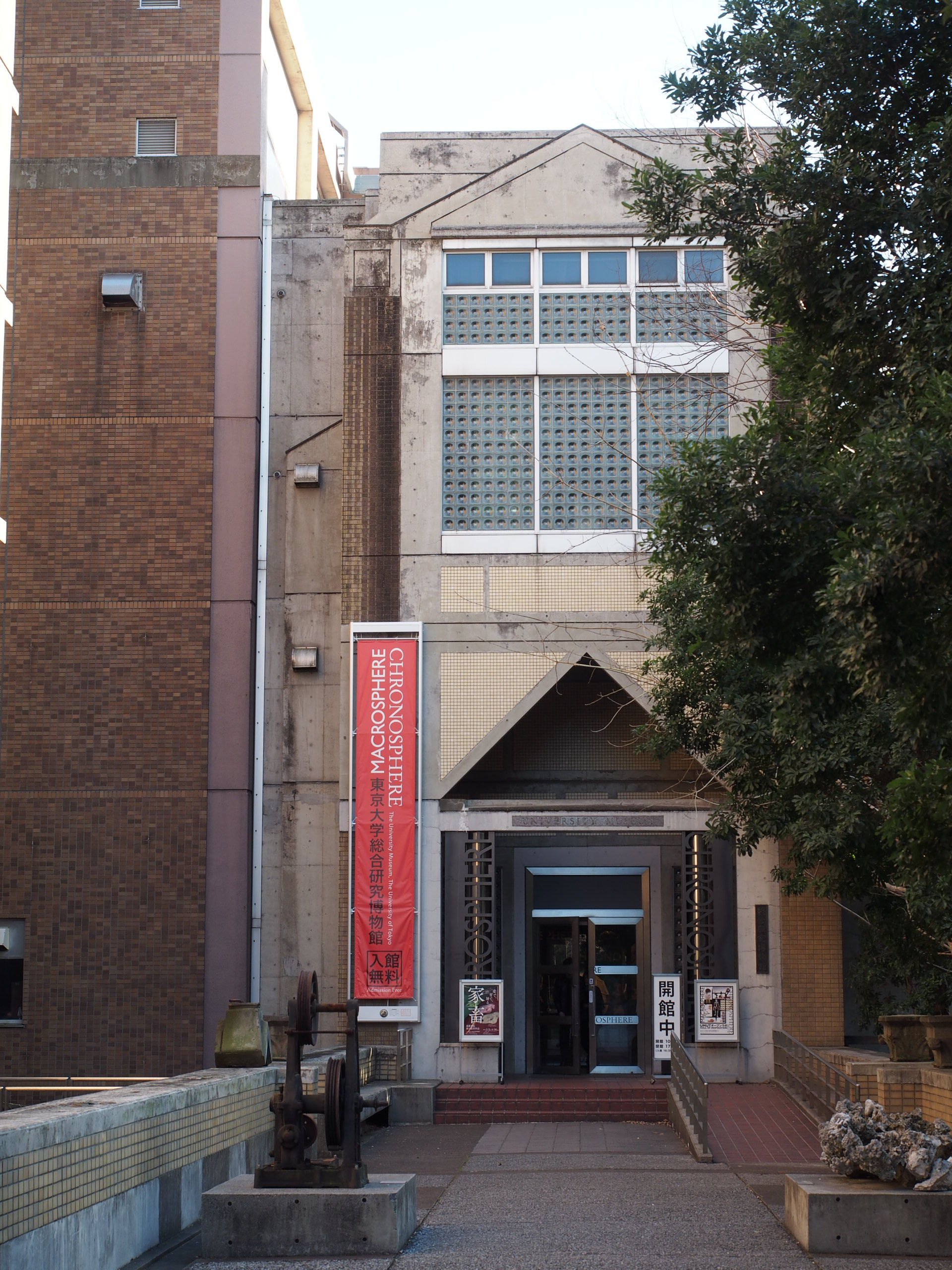 Entrance of the University Museum, the University of Tokyo, in Hongo Campus, Bunkyō, Tokyo, Japan.